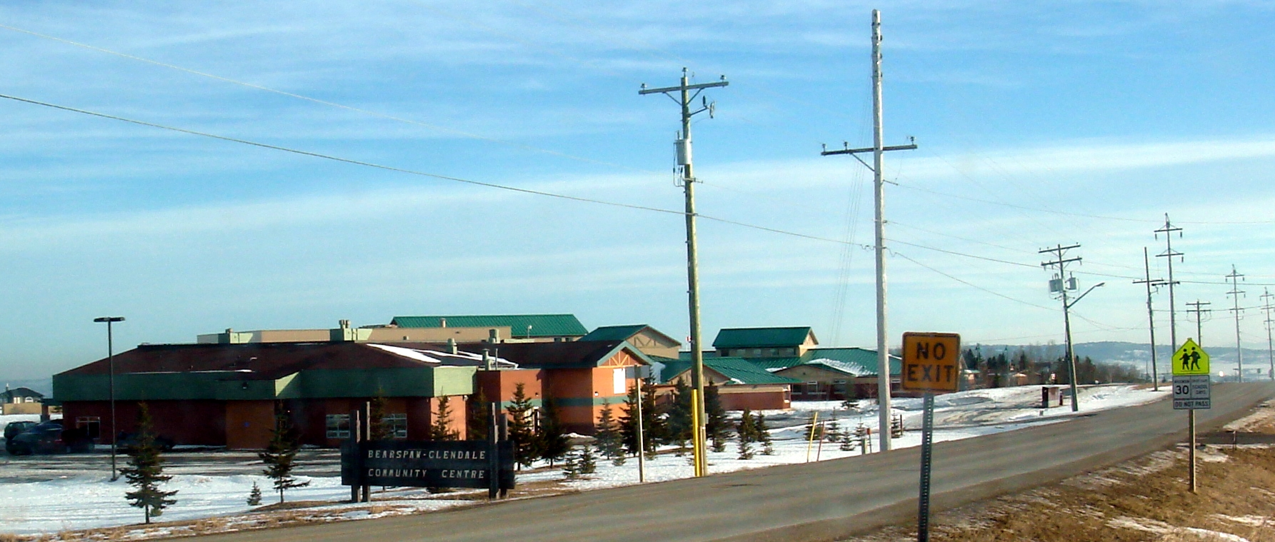 Bearspaw Community center, west of Calgary, Alberta, Canada